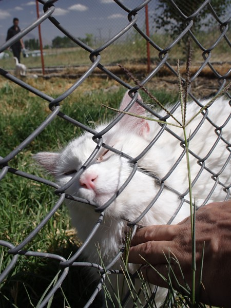 Visiting hours at the Van cat breeding and research centre. An adult female Van cat (Turkish: Van kedisi) wants to be pet.